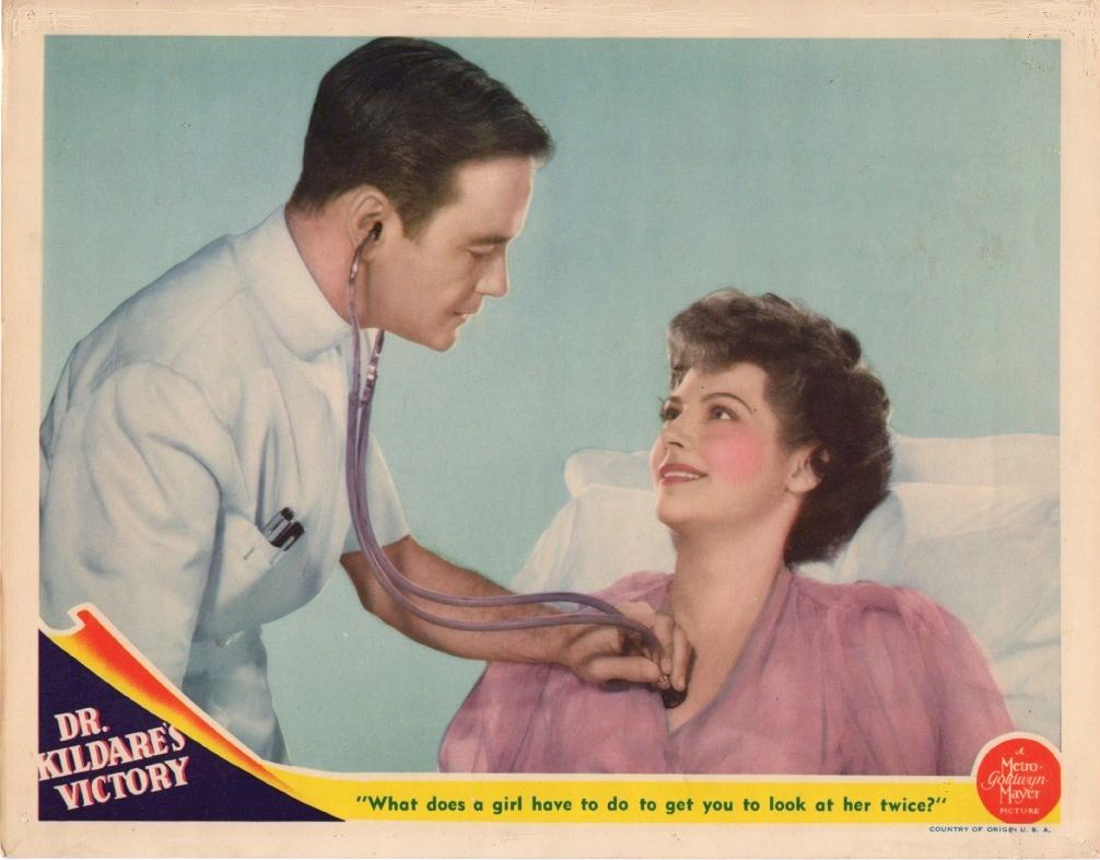 Lobby card for the American drama film Dr. Kildare's Victory (1942) with Lew Ayres and Ann Ayars.